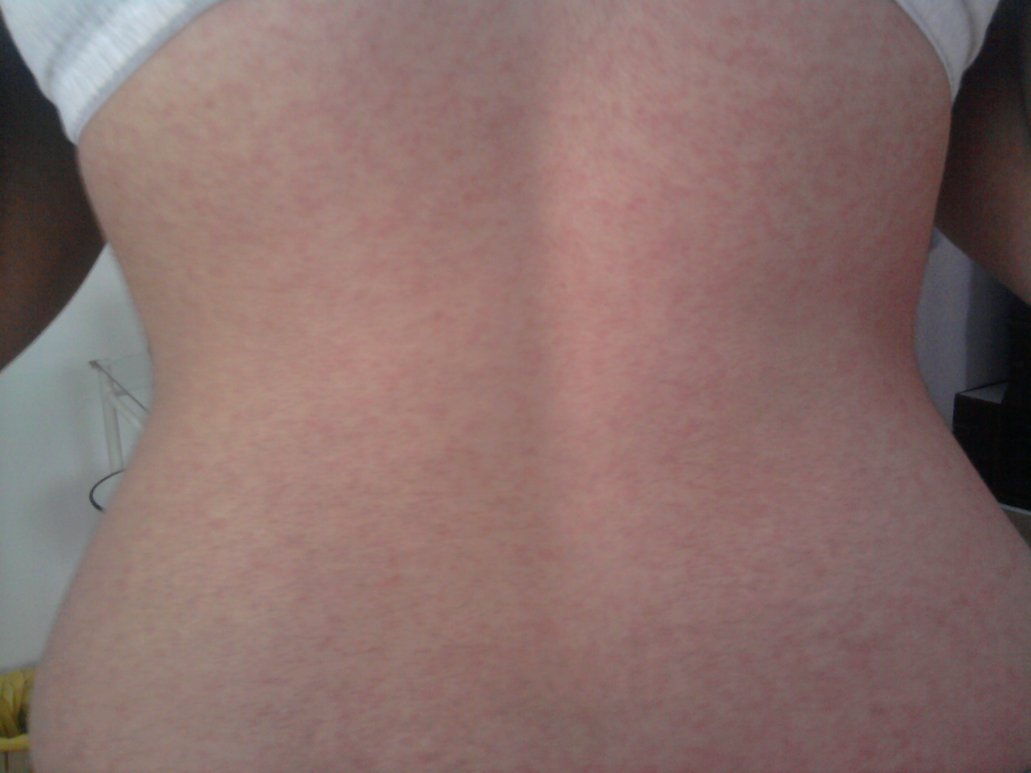 Exantem spate